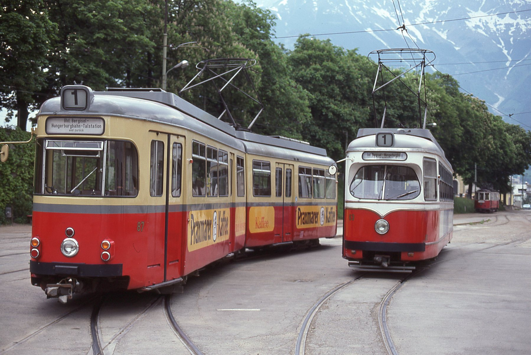 Trams at Bergisel. Car 87 from Hagen was later rebuilt to 8 axles and exclusivey used on the Stubaitalbahn. No. 63 is a four axle car built by Lohner.